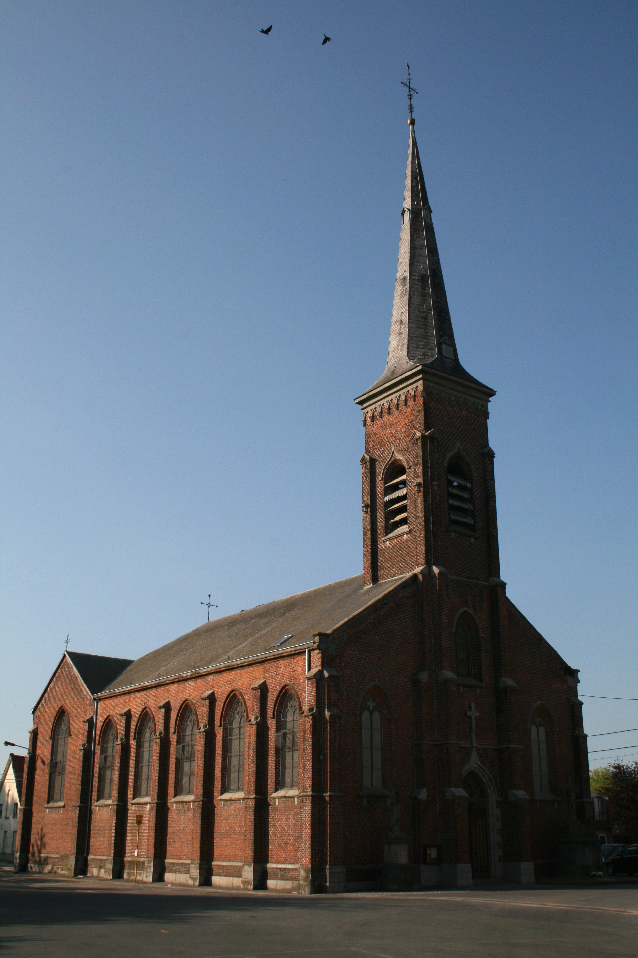 Molenbaix (Belgium), the Saint Ghislain church (1849).